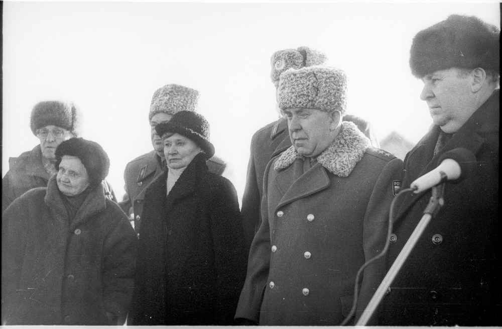 The opening of a bronze bust of the Hero of Socialist Labor Mikhail Ilyich Koshkin Brynchagi in the village. Colonel-General Sergei Maev (Tank-Automotive head of the main department of the Ministry of Defense of the Russian Federation, and later chairman of the Central Council of DOSAAF Russia). The center has two daughters of the hero - Tamara Koshkin and Tatiana Koshkin.